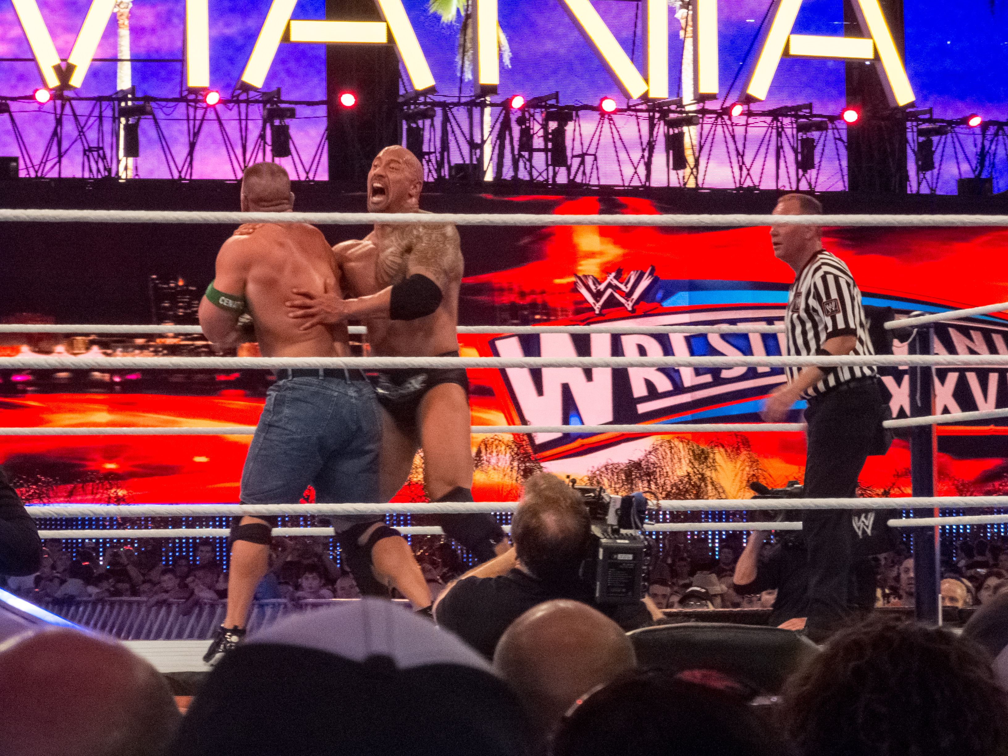 WWE Wrestlemania 28 - The Rock vs John Cena